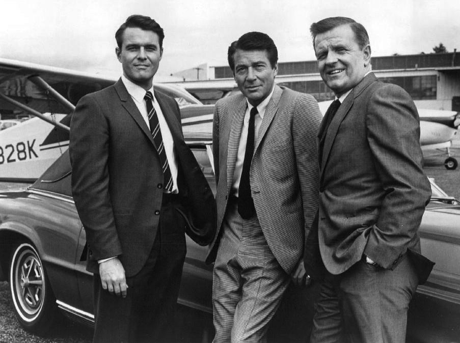 Publicity photo of the main cast of the television program The FBI. From left: William Reynolds (Tom Colby), Efrem Zimbalist, Jr. (Lewis Erskine), and Philip Abbott (Arthur Ward).